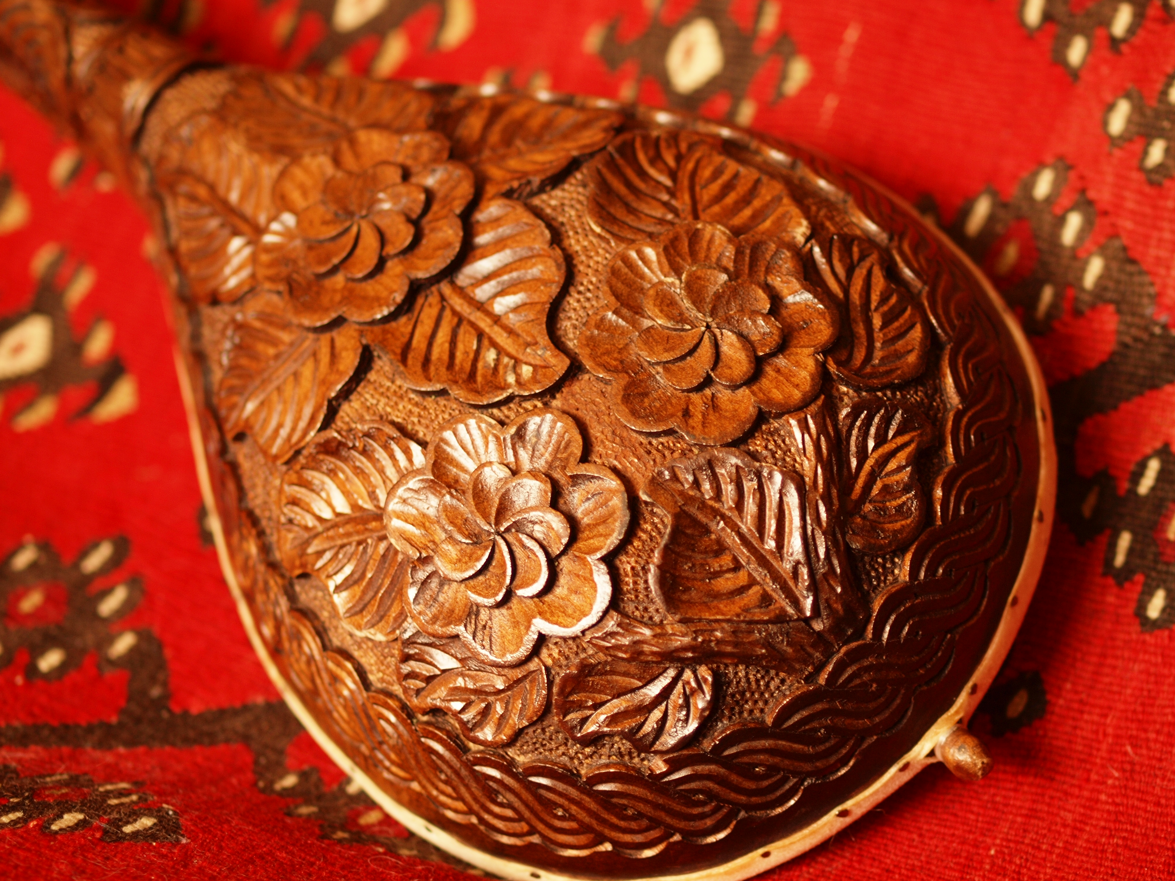 Gusle Back detail